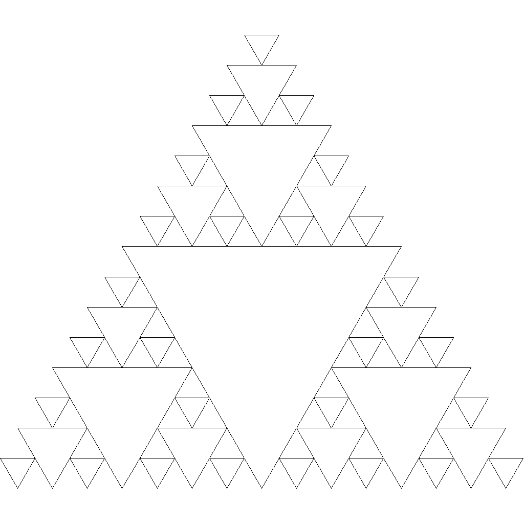 S3 Sierpinski L3 All